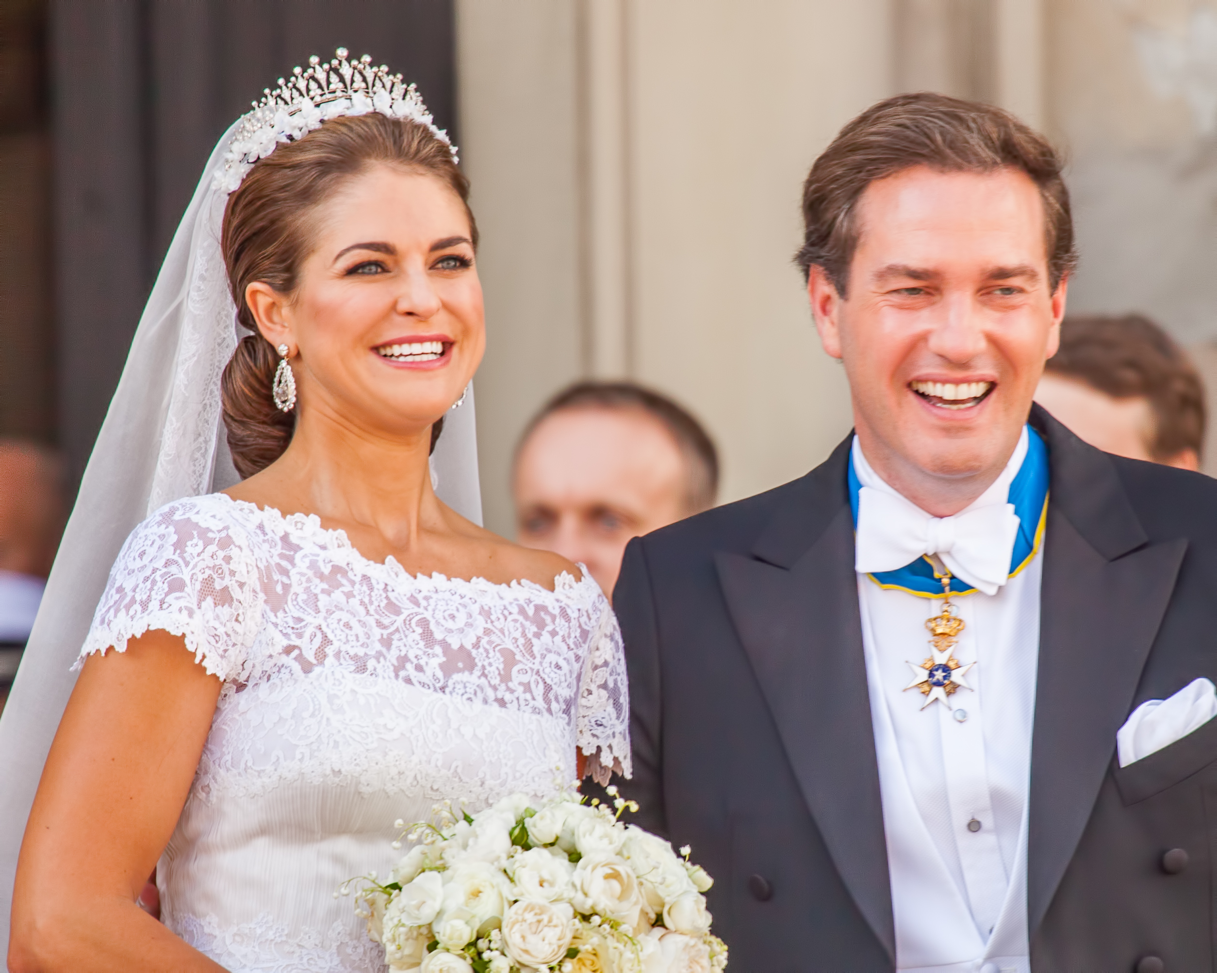 Princess Madeleine of Sweden and Christopher O´Neill wedding June 2013